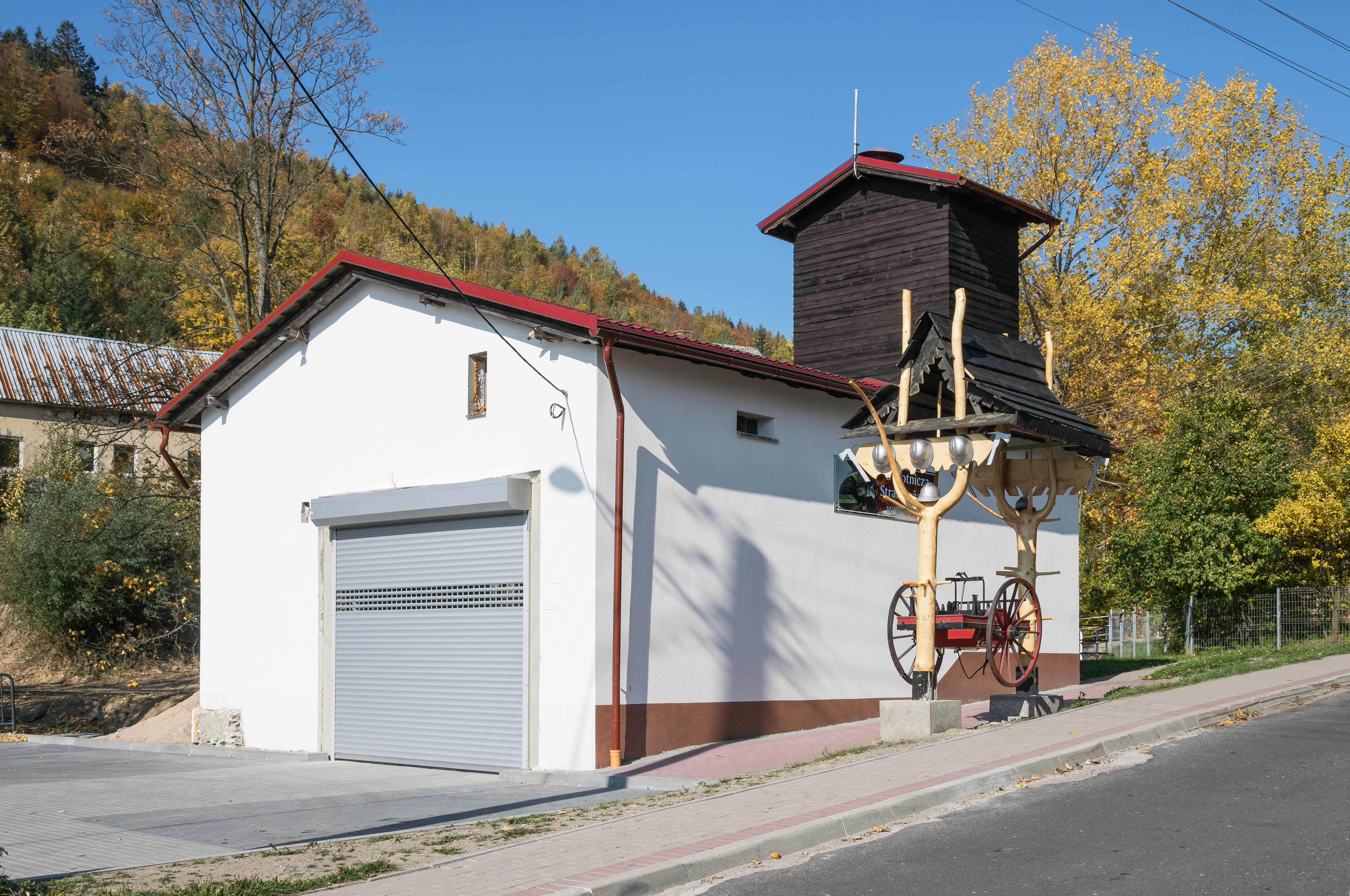 Fire station in Sokolec